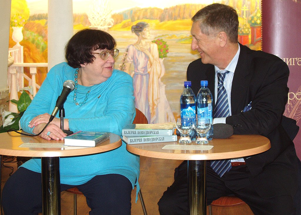 Valeriya Novodvorskaya and Konstantin Borovoi - politicians of Russia